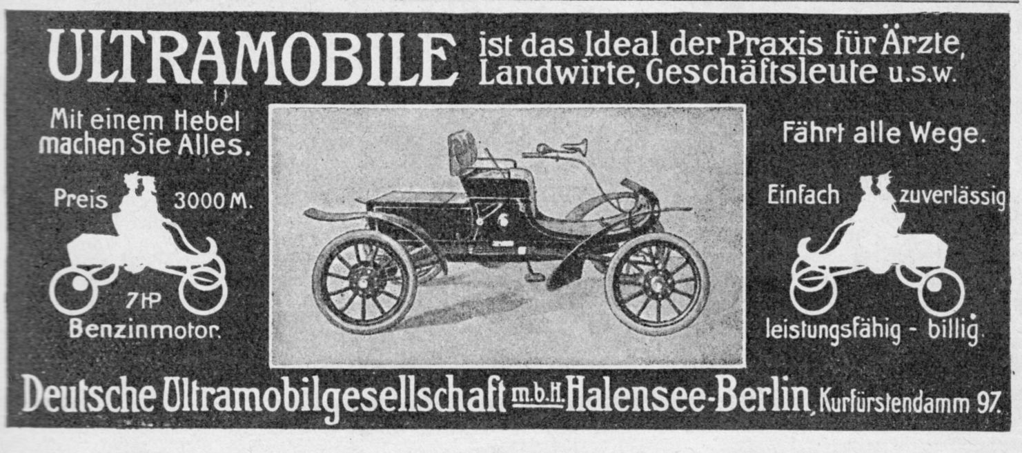 Advertisement of Deutschen Ultramobilgesellschaft